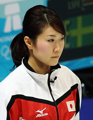 Moe Meguro; 2010 Vancouver Olympic Games - Women's Curling - Preliminary from Vancouver Olympic Centre